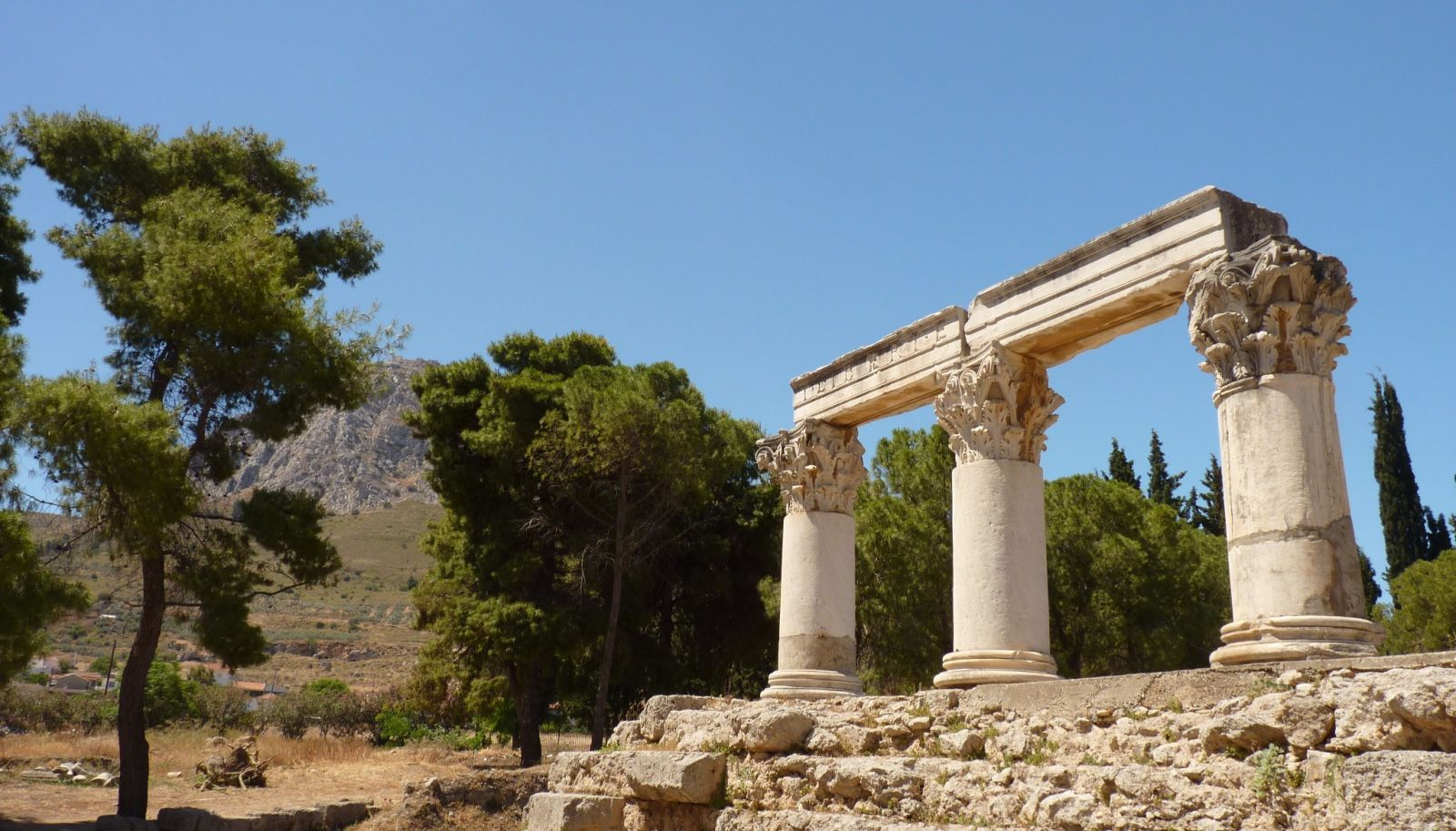 Ancient Corinth - Temple E